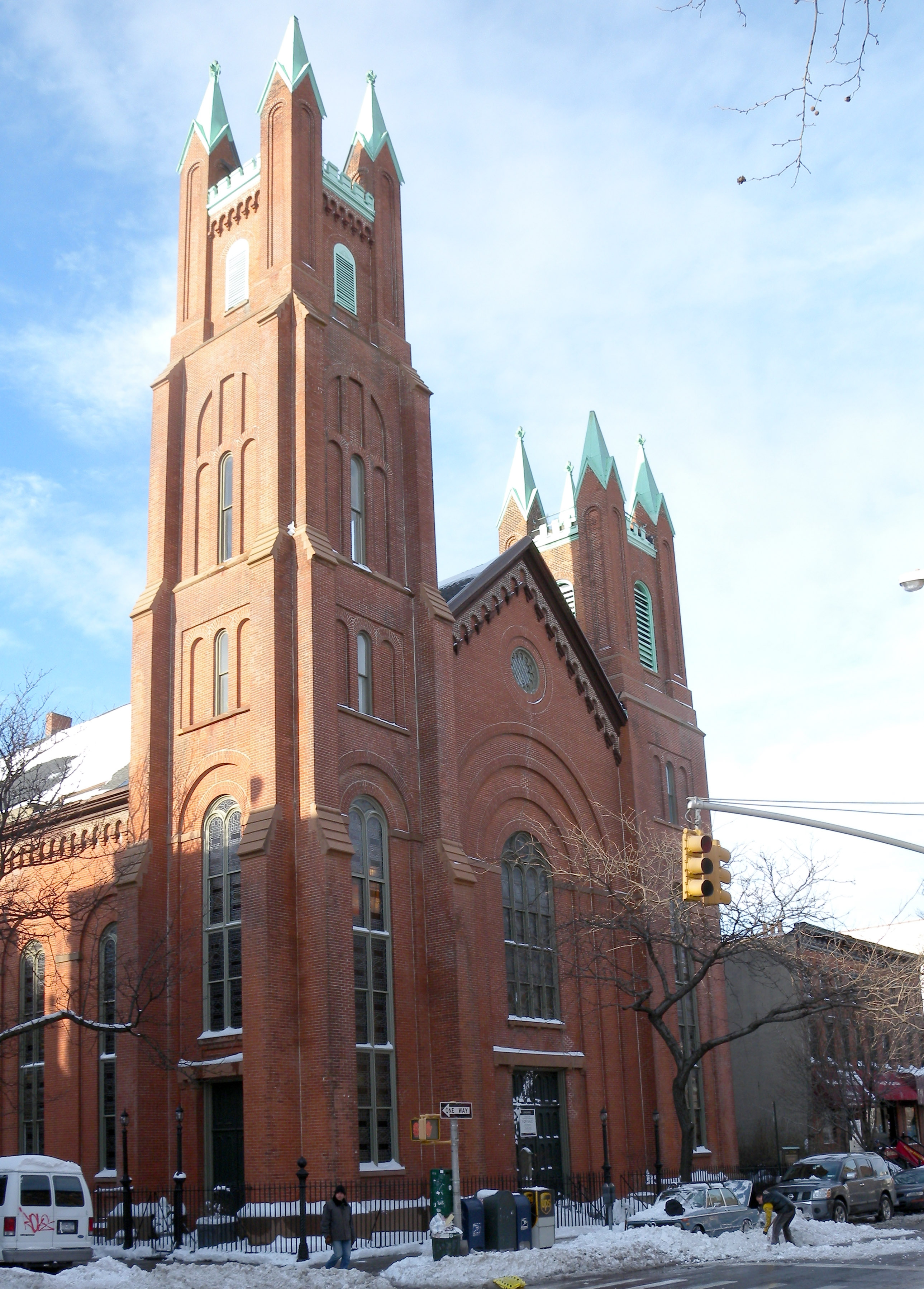 Looking north across President and Court Streets at former South Congregational Church. NYCLPC designation 1983.